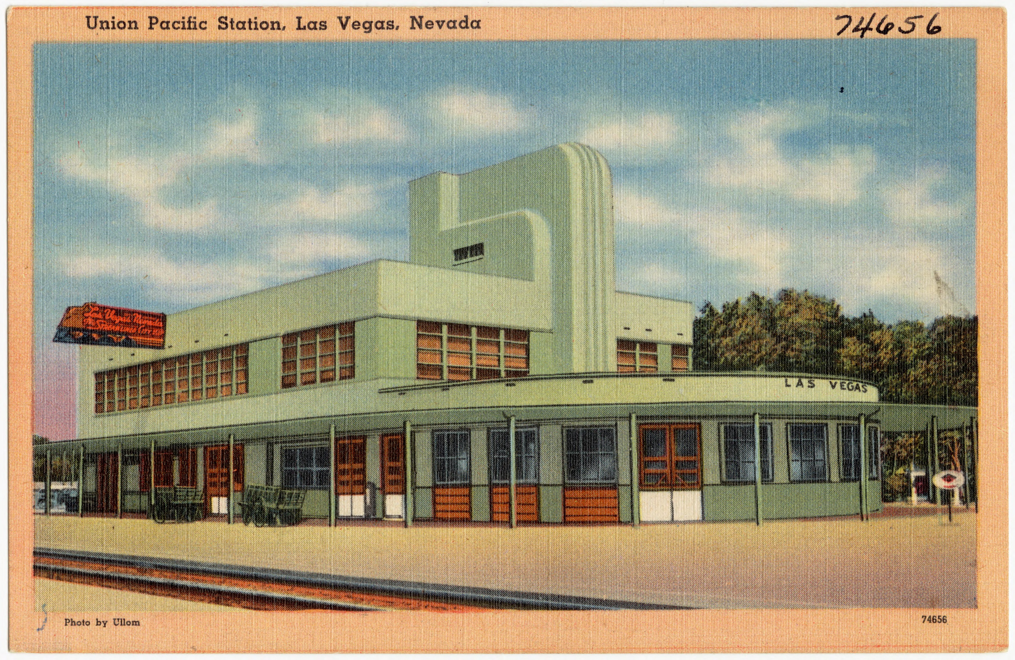 Title: Union Pacific Station, Las Vegas, Nevada Subjects: Railroad stations Places: Hoover Dam Notes: Title from item. Extent: 1 print (postcard) : linen texture, color ; 3 1/2 x 5 1/2 in. Accession #: 06_10_015516